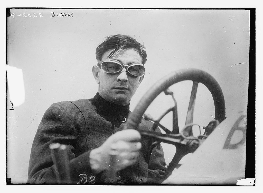 Bain News Service,, publisher. [Bob Burman, race car driver] [between 1910 and 1915] 1 negative : glass ; 5 x 7 in. or smaller. Notes: Current title devised by Library staff based on information provided by the source: Flickr Commons Project, 2008. Title on negative: "Burman." Forms part of: George Grantham Bain Collection (Library of Congress). Subjects: Automobile racing Format: Glass negatives. Repository: Library of Congress, Prints and Photographs Division, Washington, D.C. 20540 USA, General information about the Bain Collection is available at Persistent URL: Call Number: LC-B2- 2202-4